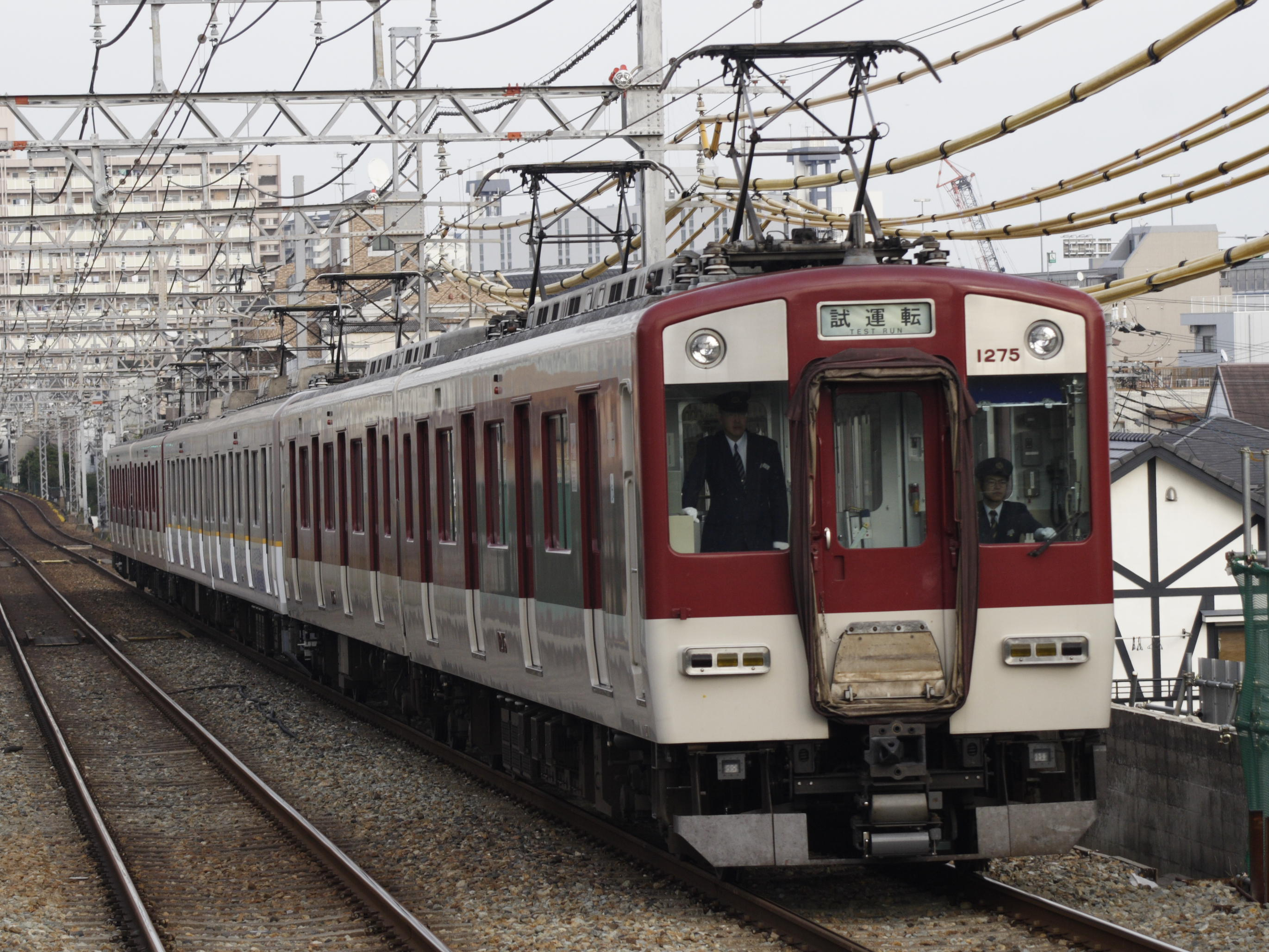 Kintetsu 1252 Hanshin dempo Station